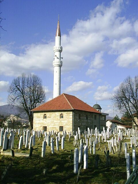 A mosque in Busovača, Bosnia and Herzegovina